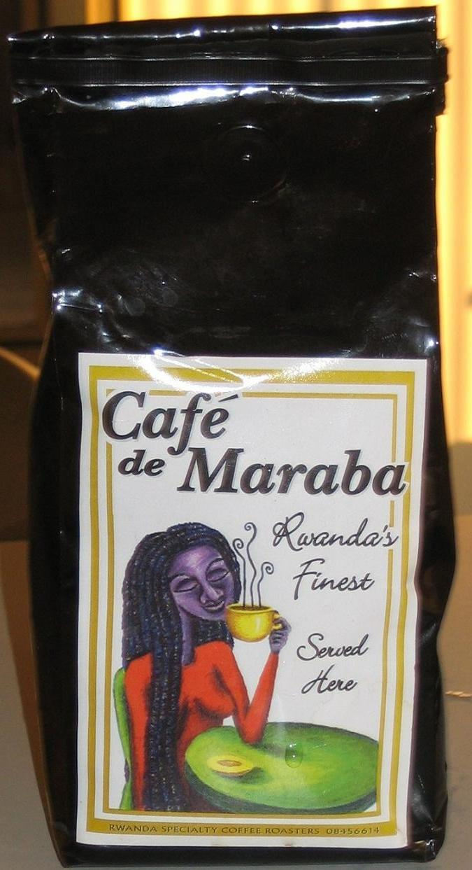 A packet of Maraba Coffee, as sold in Rwanda. Taken by SteveRwanda